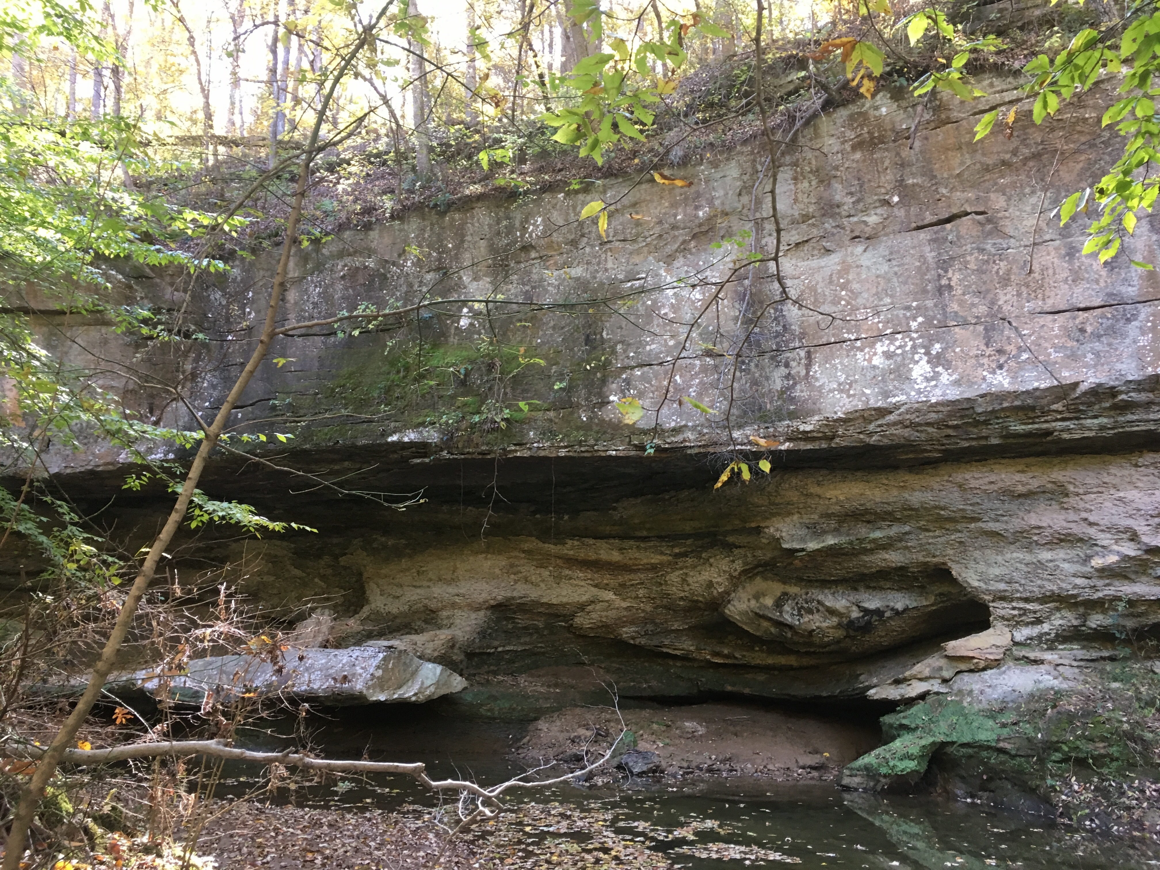 a view of a rock face above the creek